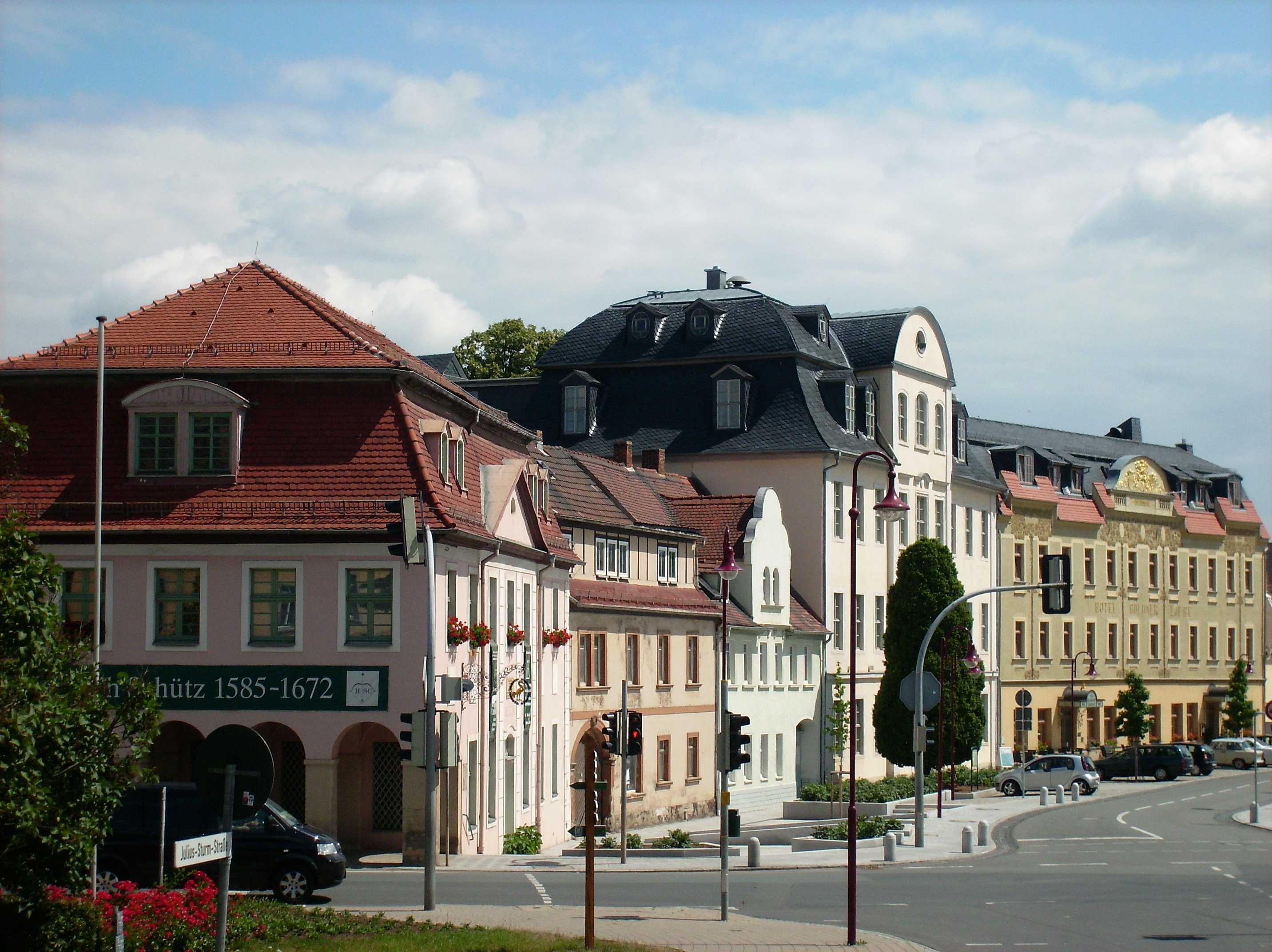 Heinrich-Schütz-Strasse in Bad Köstritz (Greiz district, Thuringia), beginning at the Heinrich Schütz Museum on the left